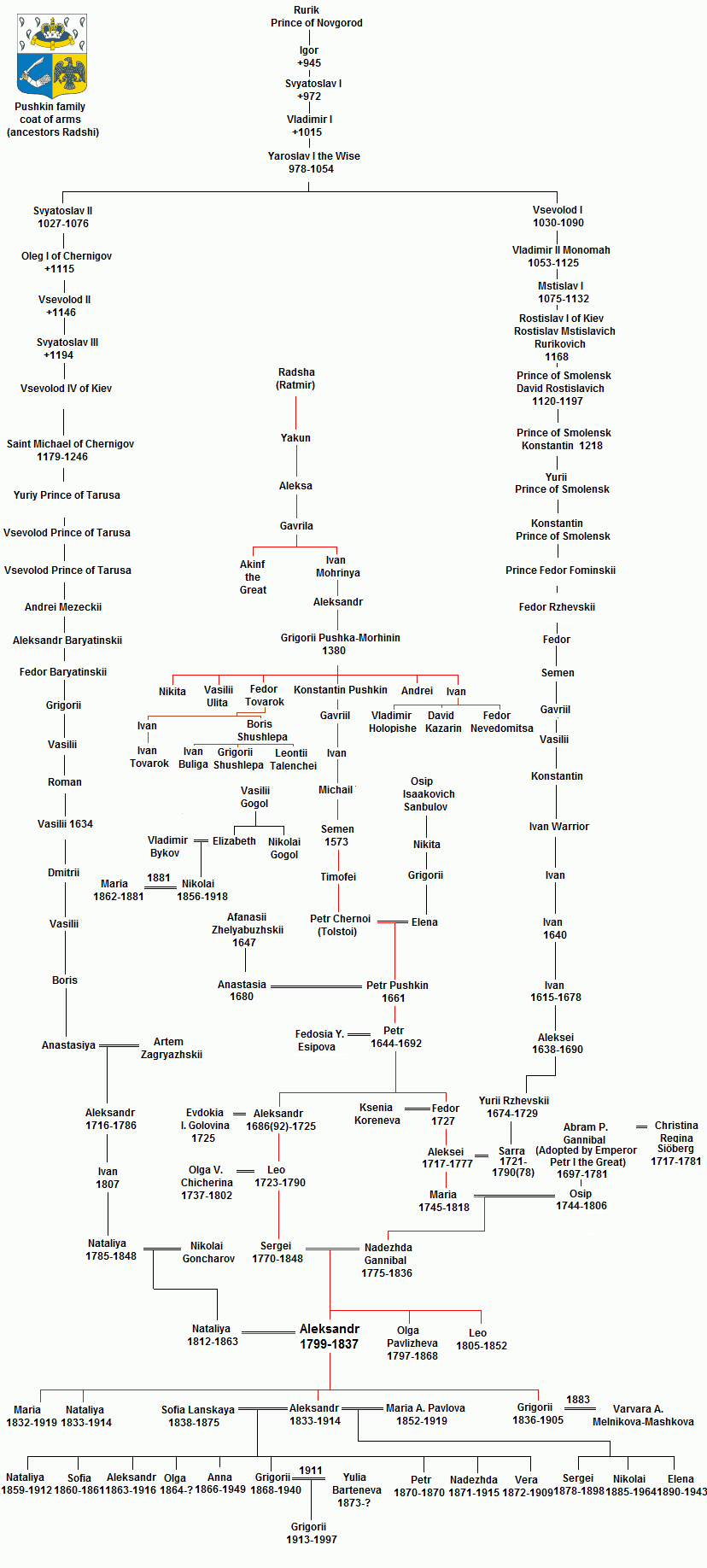 This is ancestry of Alexandr S. Pushkin - Russian writer. Original file Pushkin_rod.png was created in 2006 by V.O. Kabak, and translated in 2015 to English.